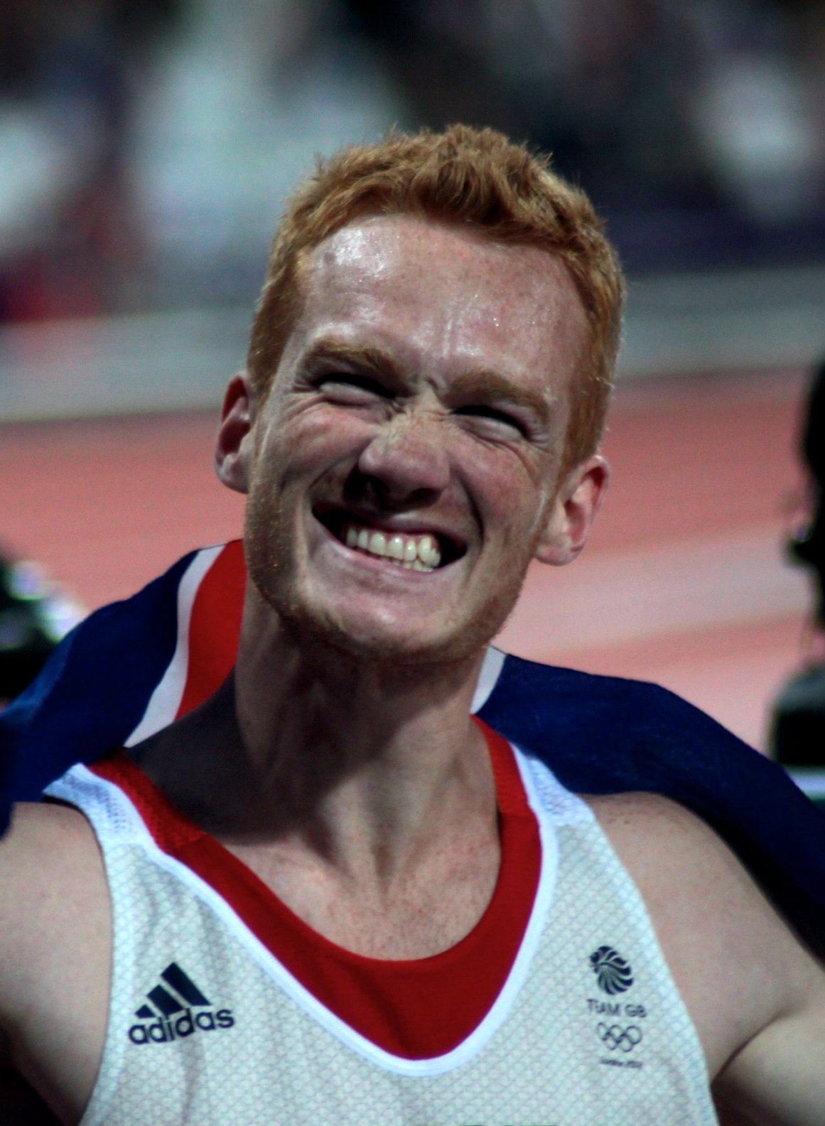 Long jumper, Greg Rutherford at the London 2012 Olympic Games